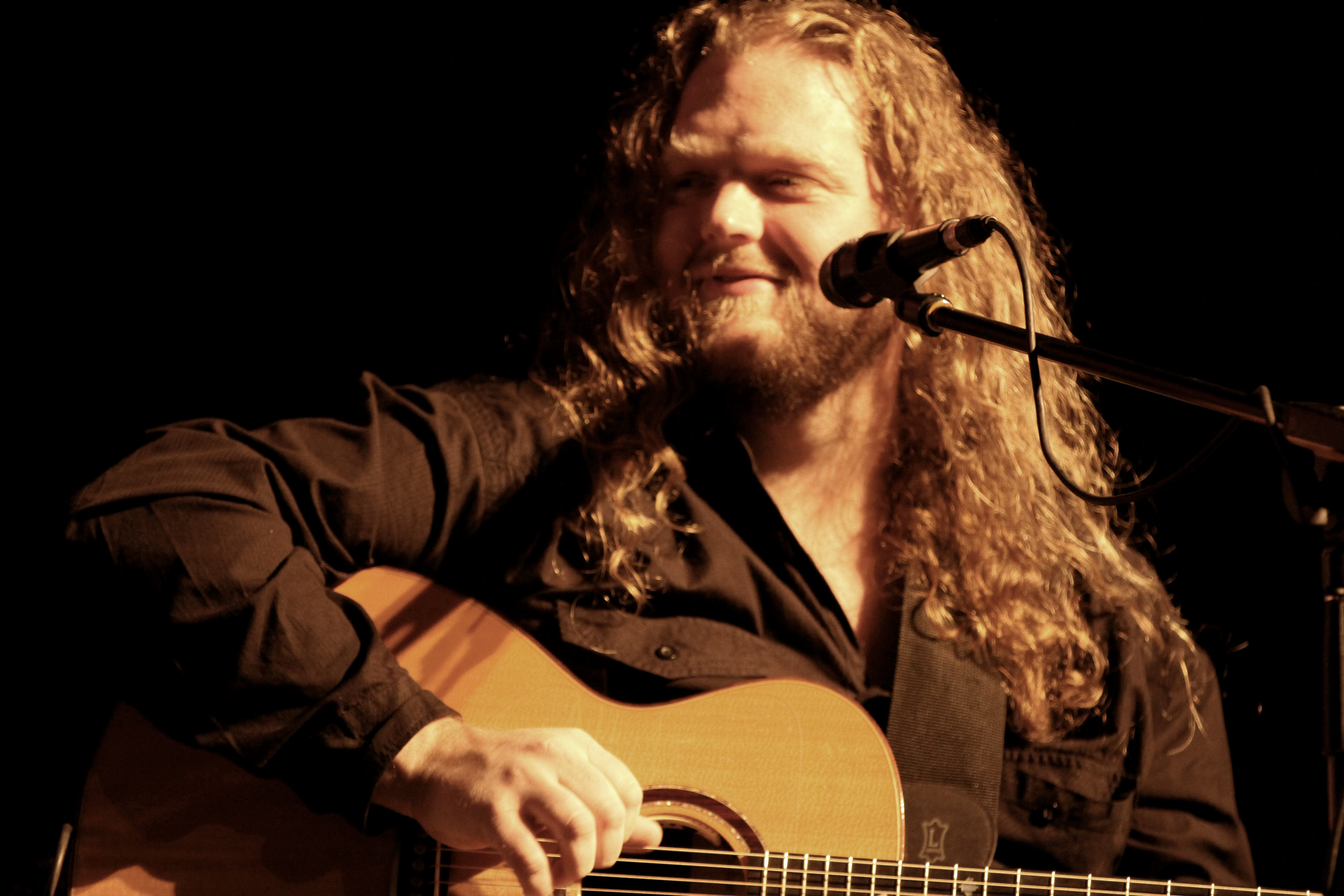 Matt Andersen performing live in 2012.